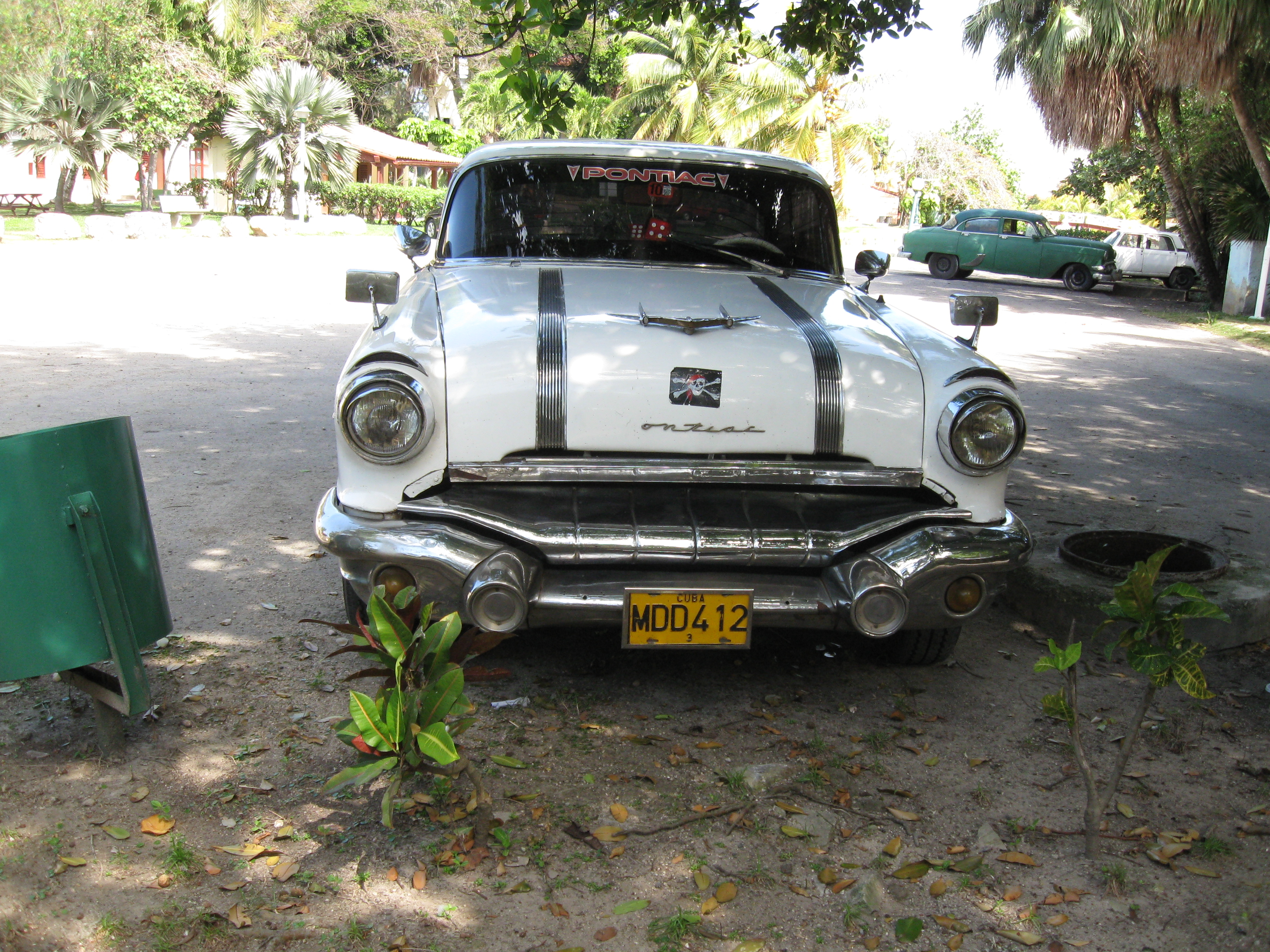 A picture of a car. Cuba 2011